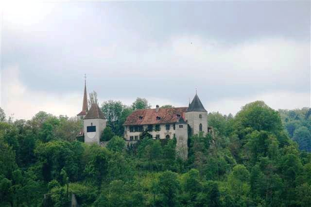 The castle of Surpierre seen from Villeneuve FR, Switzerland